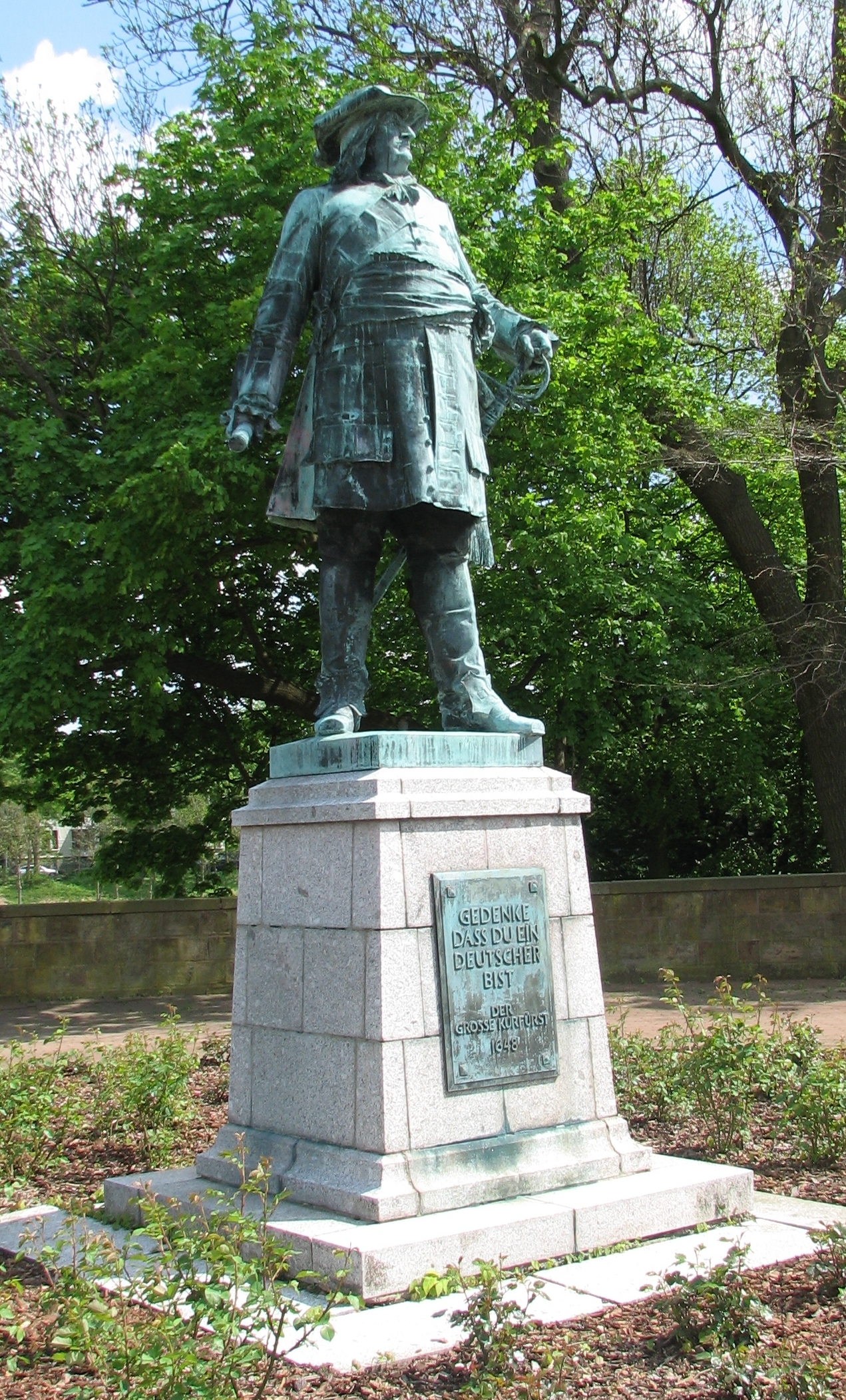 Denkmal Denkmal für den „Großen Kurfürsten“ (gemeint ist der Kurfürst von Brandenburg und Herzog von Preußen Friedrich Wilhelm von Brandenburg) in Minden, Kreis Minden-Lübbecke, Nordrhein-Westfalen.